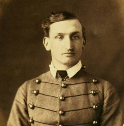 Lieutenant Colonel David Hillhouse Buel. Notes in Ink and Pencil "David H. Buel, N.Y. 1st Cavalry Transferred to Ordnance Nov'r 1861 Watervlier Arsenal Nov'r 1861Promoted 1st Lieut Apl 1863 Promoted Captain 1864 Chf Ord Dept Tennessee 1864 Capt & Bvt Lt. Col Comdg Kennebec Arsenal" Note in Pencil " Asasinated [assasinated] at Leavenworth Arsl 1871"